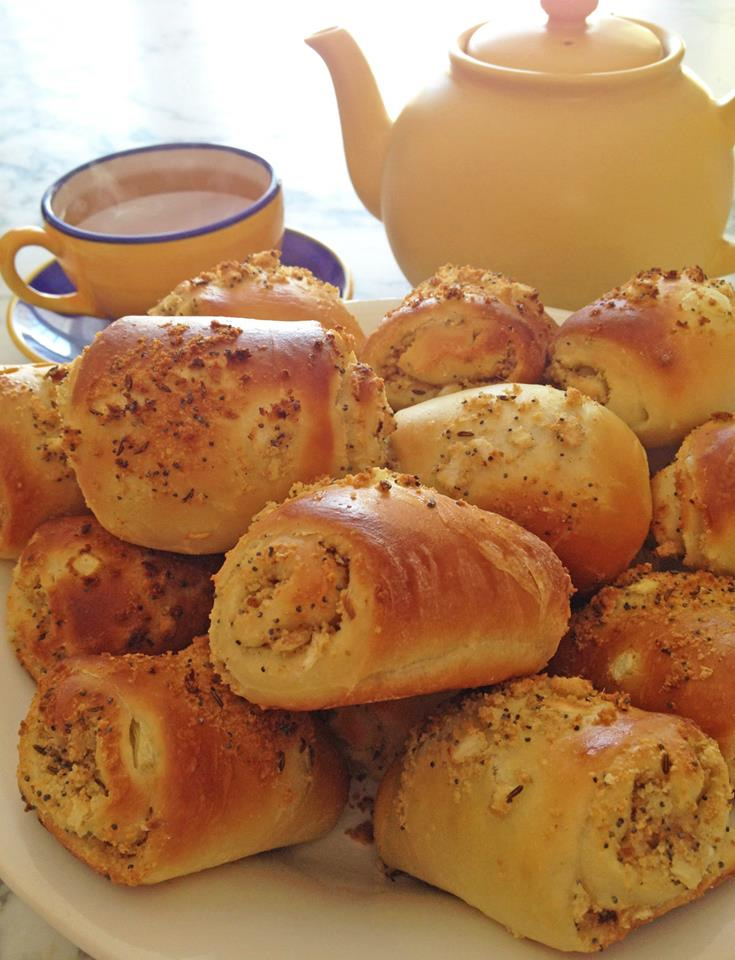 Using the recipe found in "The World-Famous Ratner's Meatless Cookbook", I recently made a batch of the onion rolls that Ratner's was known for.